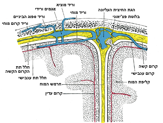 Diagrammatic representation of a section across the top of the skull, showing the membranes of the brain, etc. (Modified from Testut.)